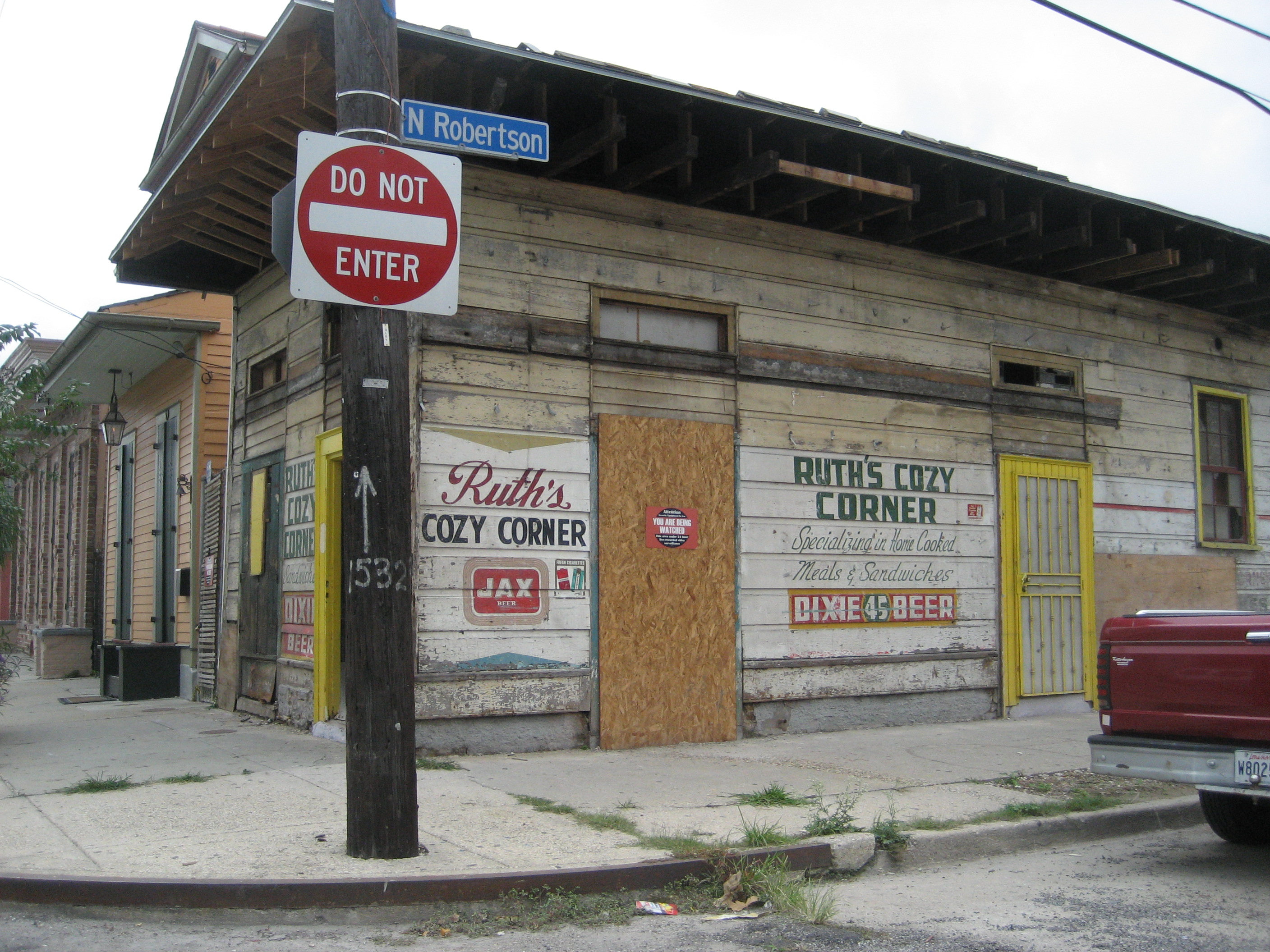 New Orleans: Faubourg Treme neighborhood. Old neighborhood bar undergoing renovation at uptown river corner of Ursulines & North Robertson